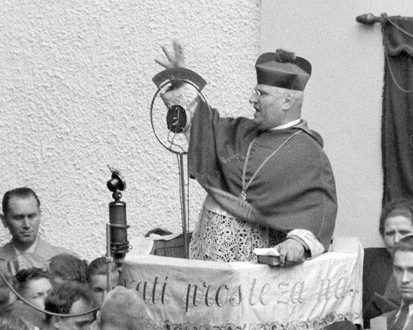 Msgre. Bohumil Stašek (* February 17, 1886, Klabava - August 8, 1948, Prague) during a courageous patriotic sermon at a memorable pilgrimage in front of the Roman Catholic Church of St. Lawrence in Domažlice (Czechia) on August 13, 1939 (The St. Lawrence pilgrimage in Domažlice in year 1939).